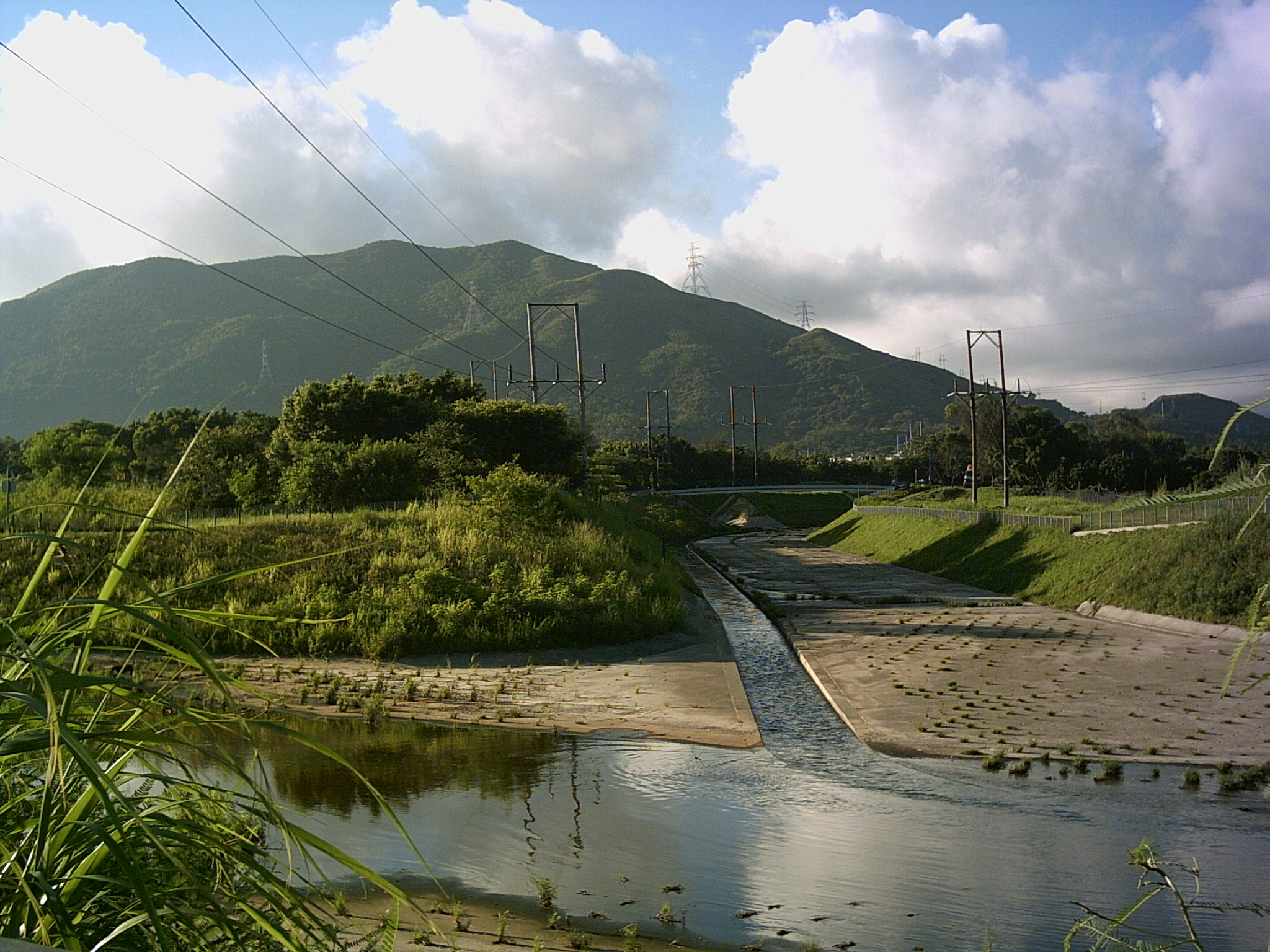 Confluence of Ng Tung River (wide) and Ma Wat River (narrow). Taken by myself in August, 2006.